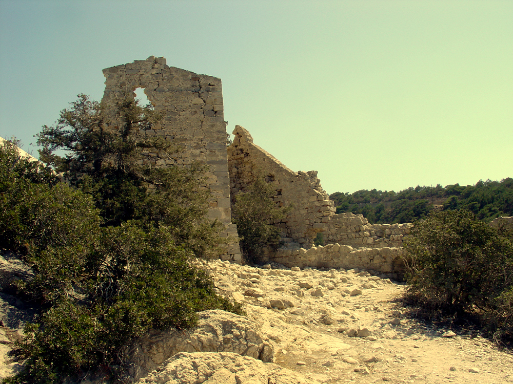 Part of old fortress Monolithos on island Rhodes Část staré pevnosti Monolithos na řeckém ostrově Rhodos Date= August 2007 Author= Karelj